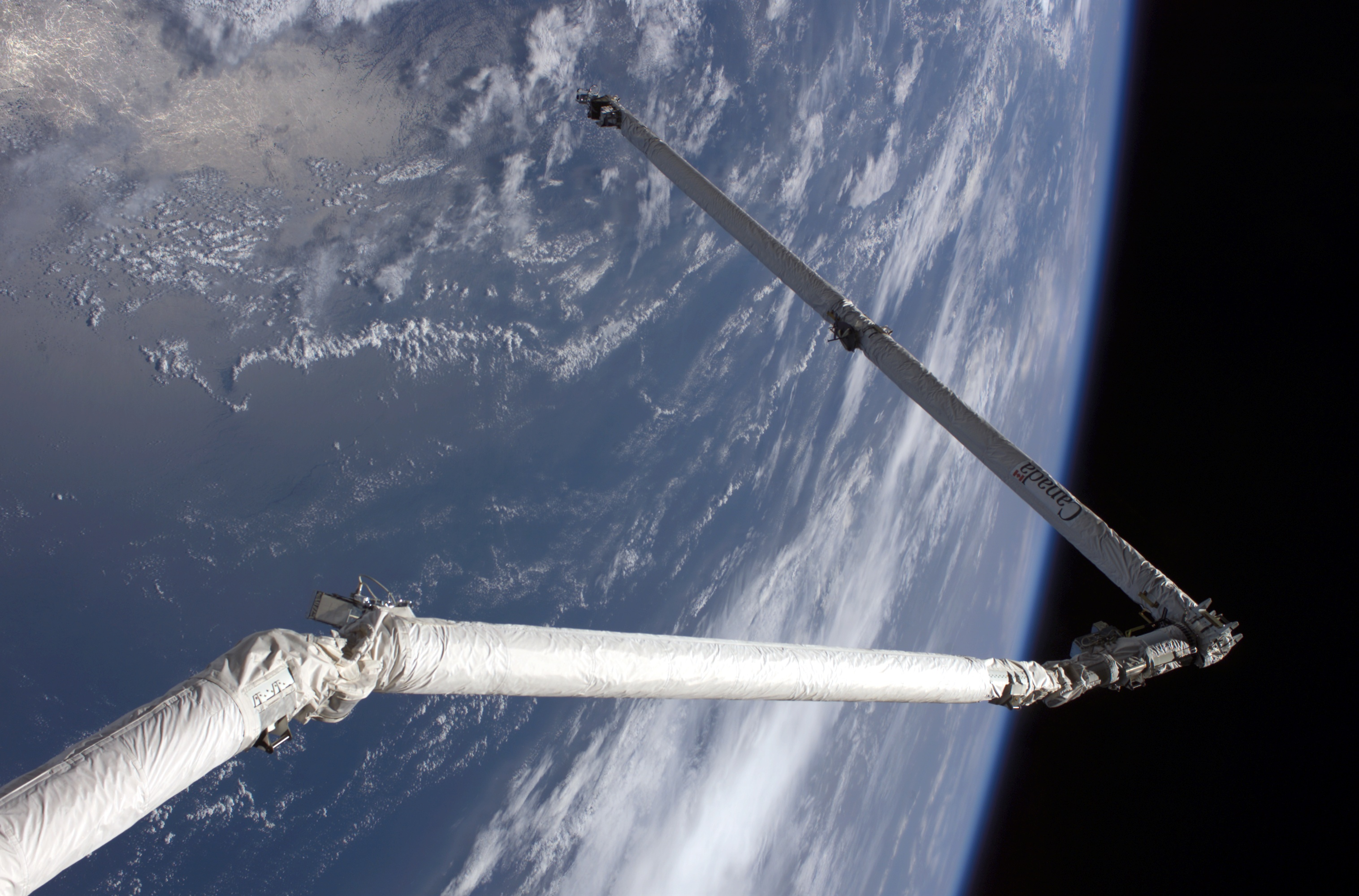 As seen from Discovery's cabin, STS-114 Remote Manipulator System (RMS) robot arm flexes above Earth. Crews of Space Station and Discovery will later use RMS and boom to study Shuttle's tiles. (28 July 2005)